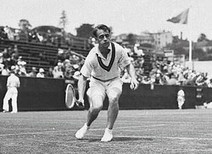 Australian tennis player Adrian Quist. pre-1955 photo, so public domain Category:Images of Australian people